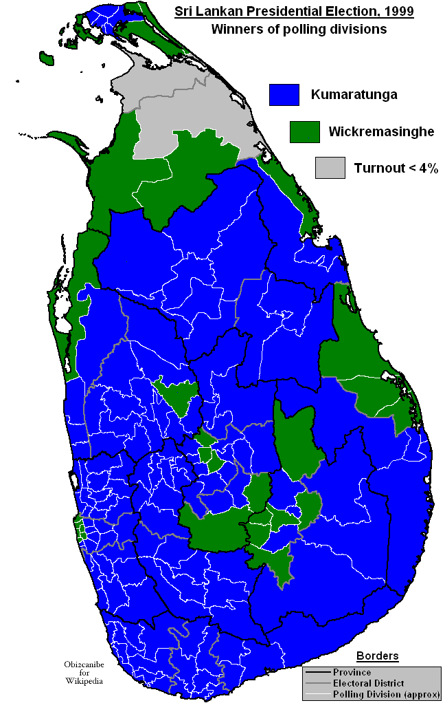 Map showing winners of polling divisions in the Sri Lankan presidential election of 1999.